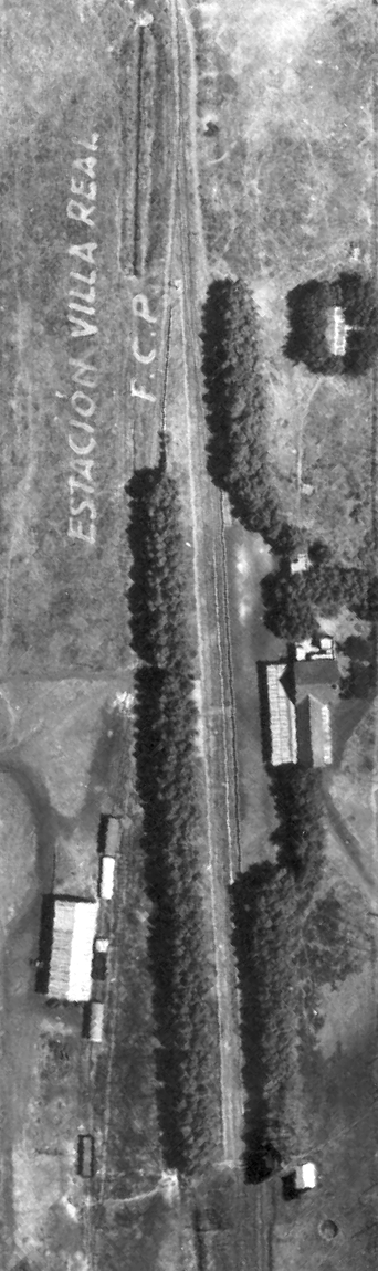 Aerial view of Villa Real train station.